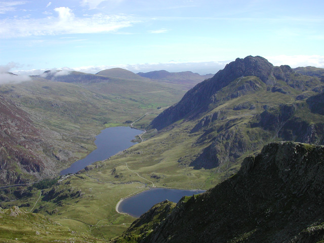 Llyn Ogwen. Llyn Ogwen and the A5 from near Llyn Cwn, Tryfan to the right.